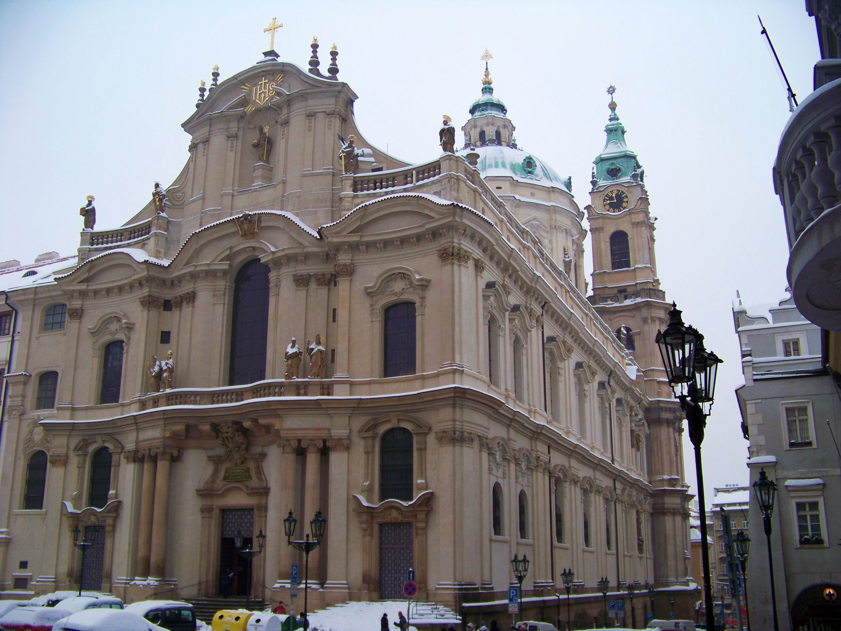 Prague-Malá Strana, the Czech Republic. Malostranské Square, Saint Nicholas Church.